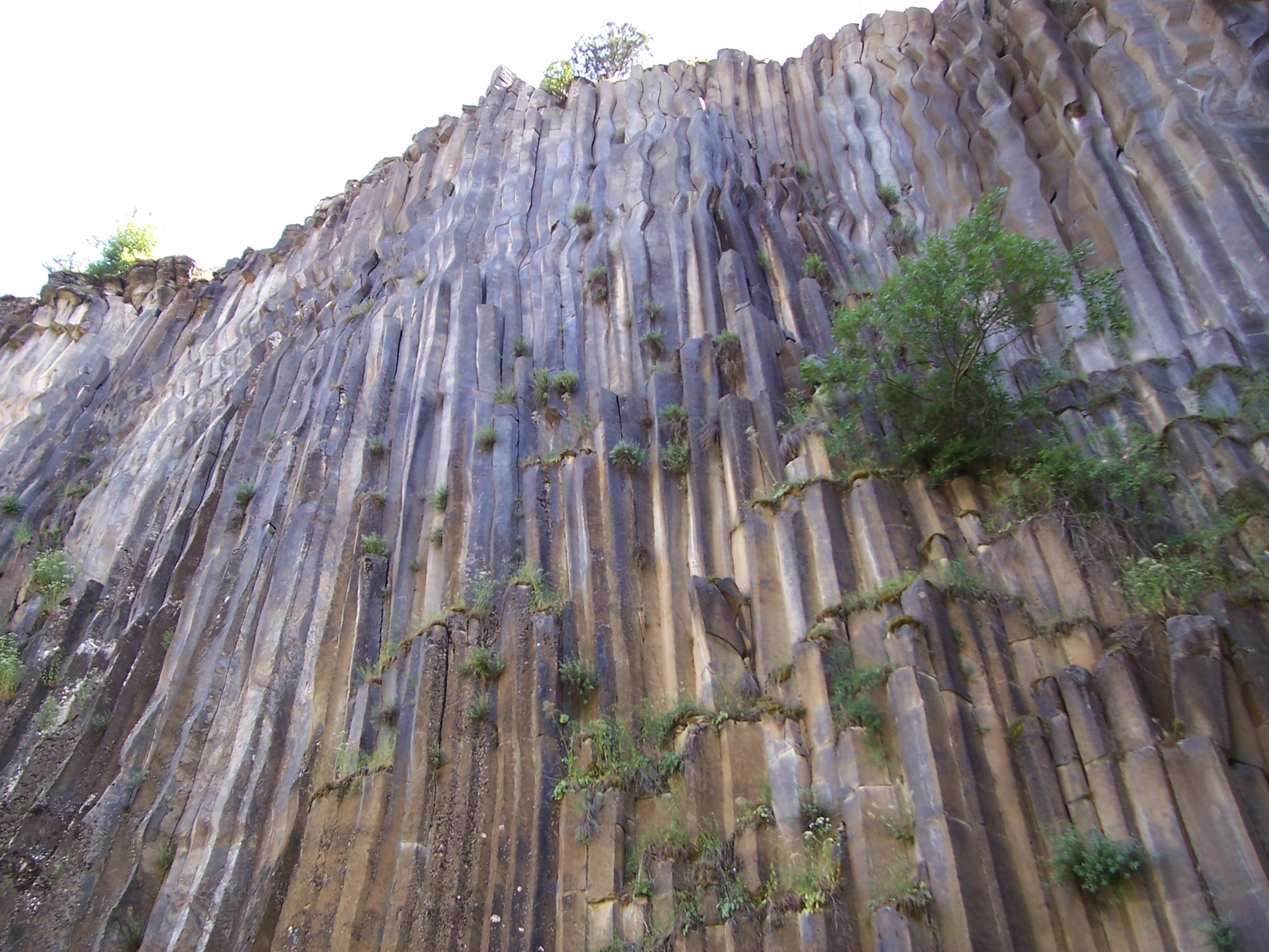 Basalt Columns in Boyabat, Sinop Province , Turkey (Black Sea Region). These columns are all hexagonal in shape.